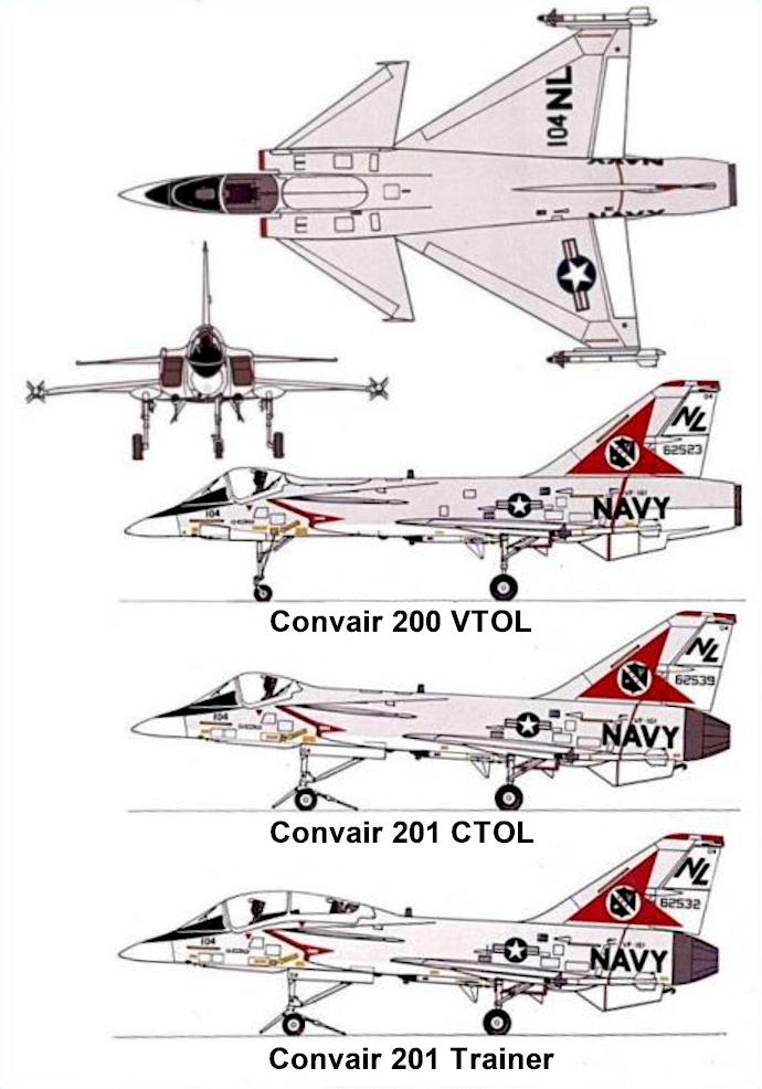 Convair 200 Series Aircraft Variants